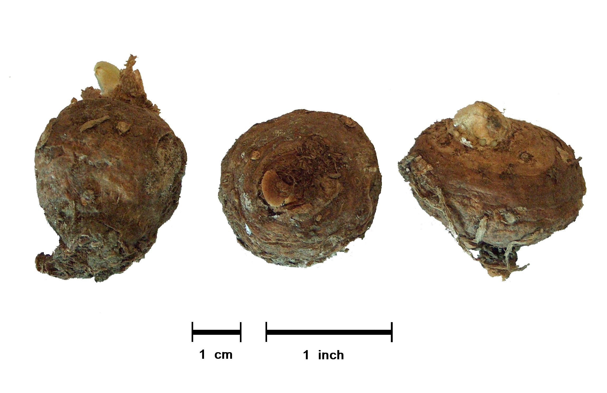 Bulb of the Cuckoo Pint (Arum italicum P. Mill.)